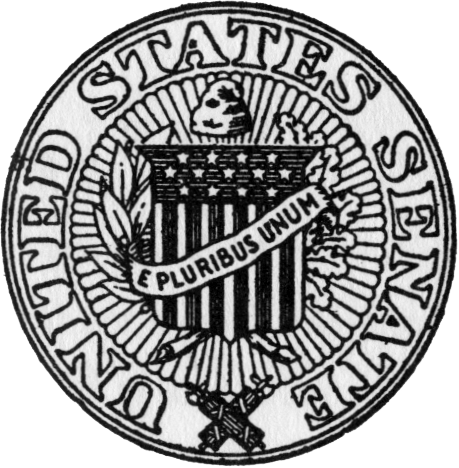 A version of the current Seal of the United States Senate, which was designed in 1886.